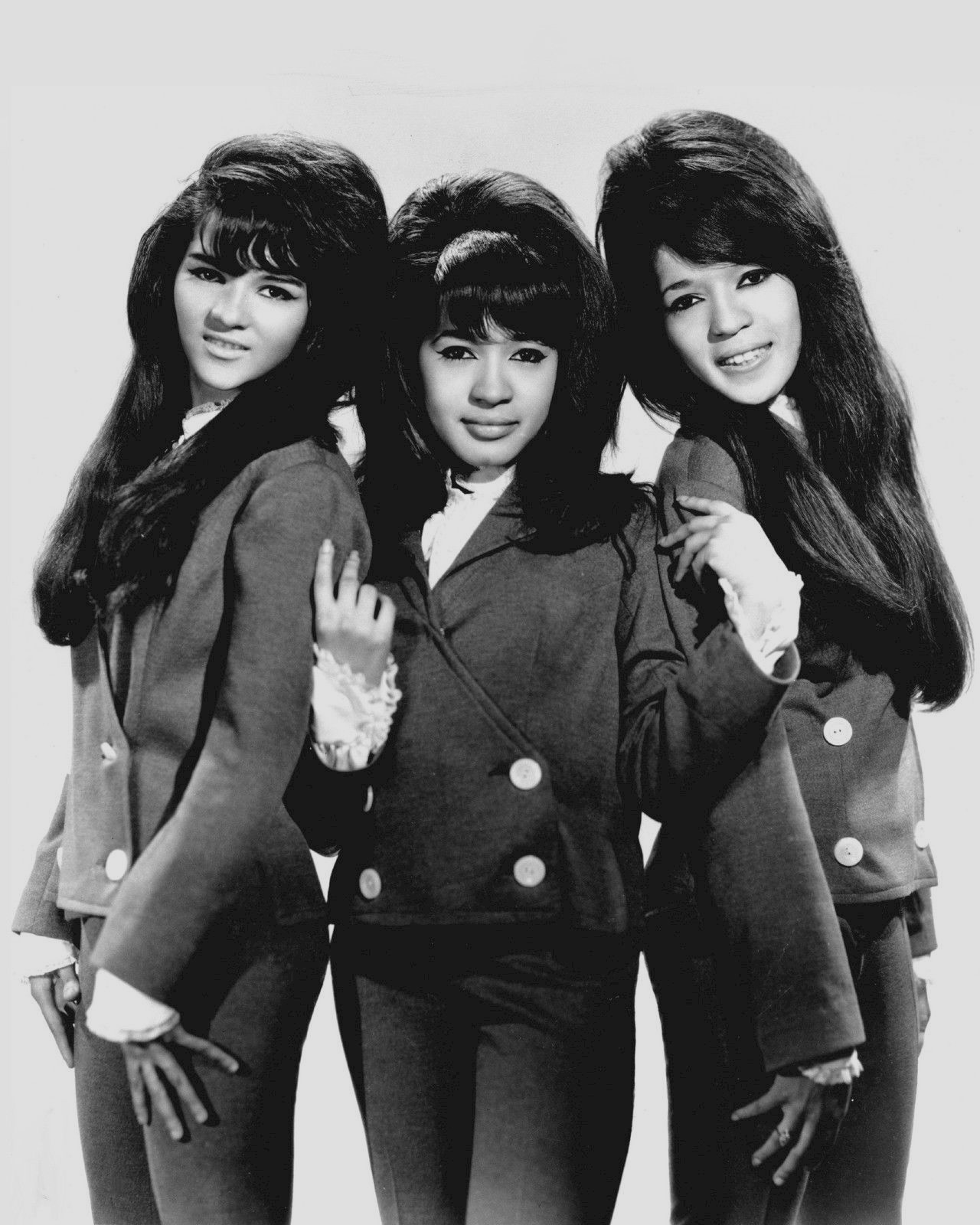 Publicity photo of The Ronettes.